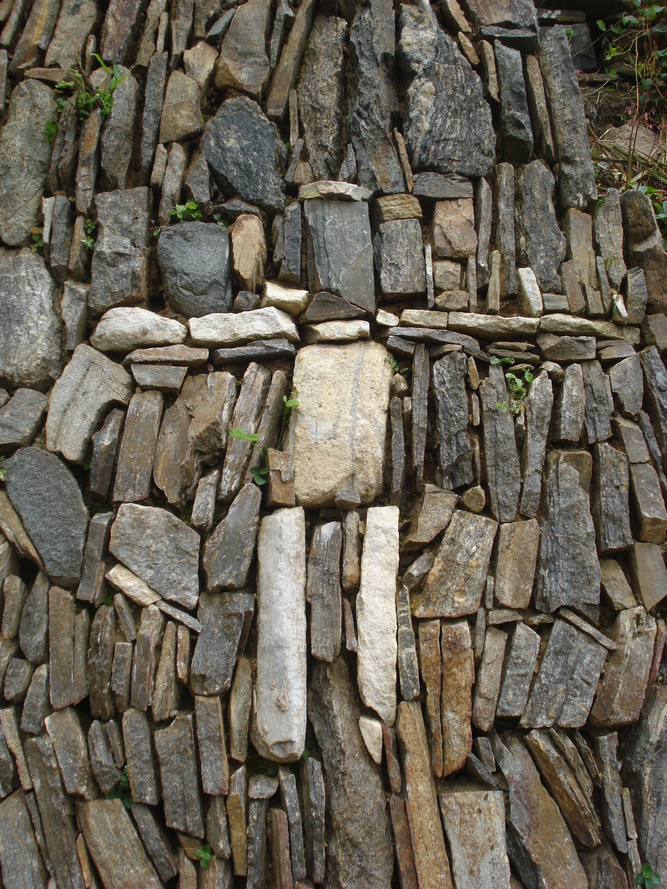 White stone woman Choquequirao